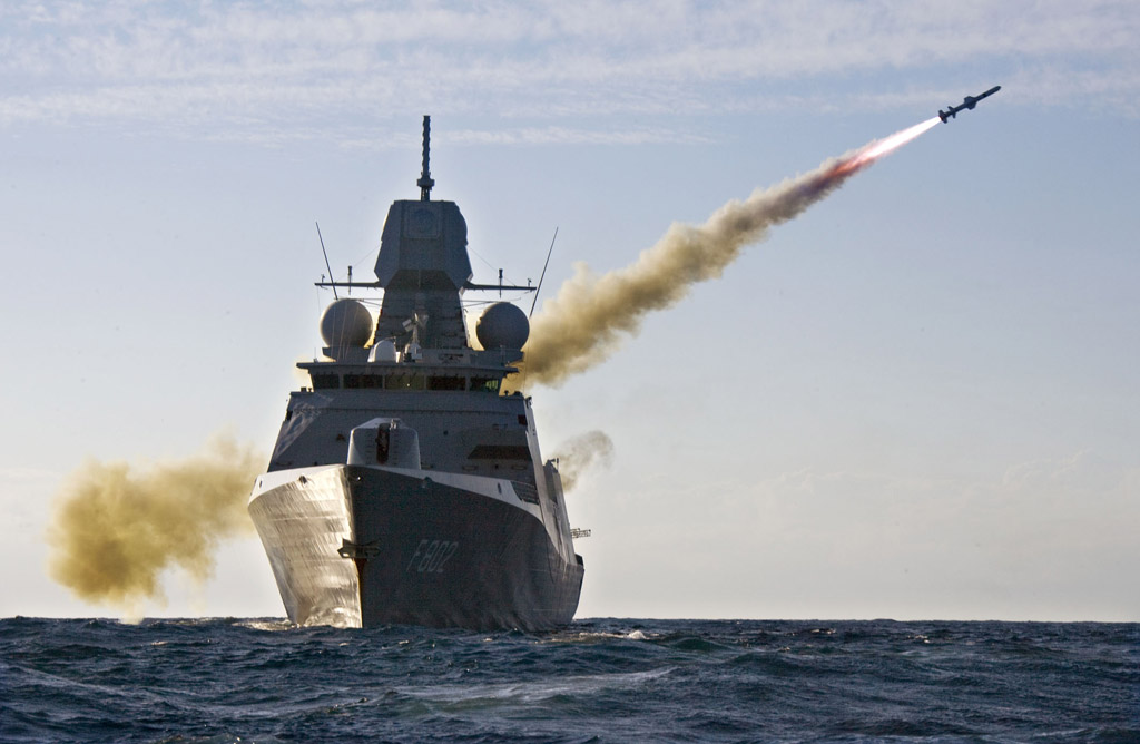 HNLMS De Zeven Provinciën fires a Harpoon